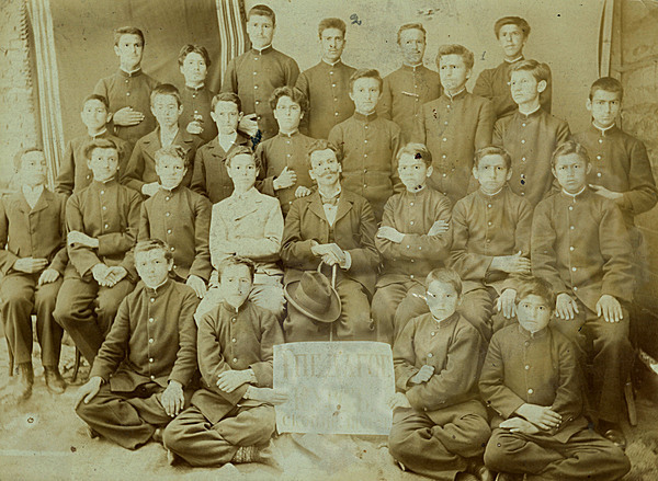 Skopje Bulgarian Pedagogical School I Class in 1901